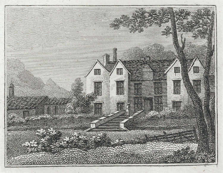 View of a large house.